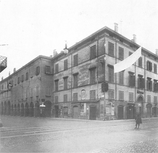 BPER - Prima Filiale di Modena in Corso Canalgrande.